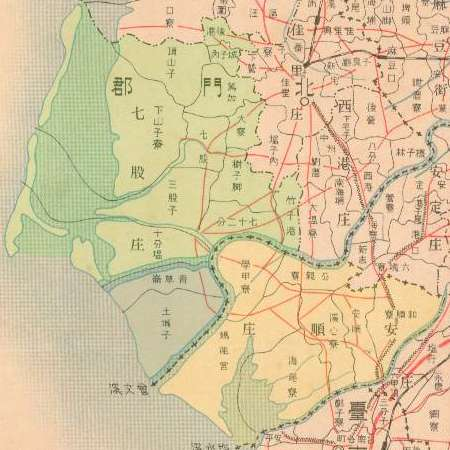 The map of Shichiko and Anjun, Tainan, TaiawnBân-lâm-gú: Tâi-oân Chhit-kó͘-chng kap An-sūn-chng ê tē-tô͘